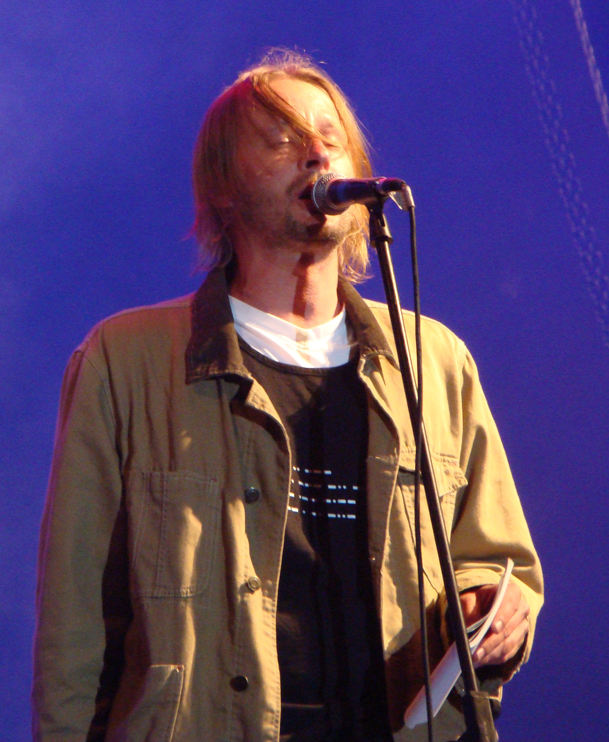 Misjko Barbara, vocalist of "Mertvyj Pivenj" (during the Fort.Missia festival 2011).